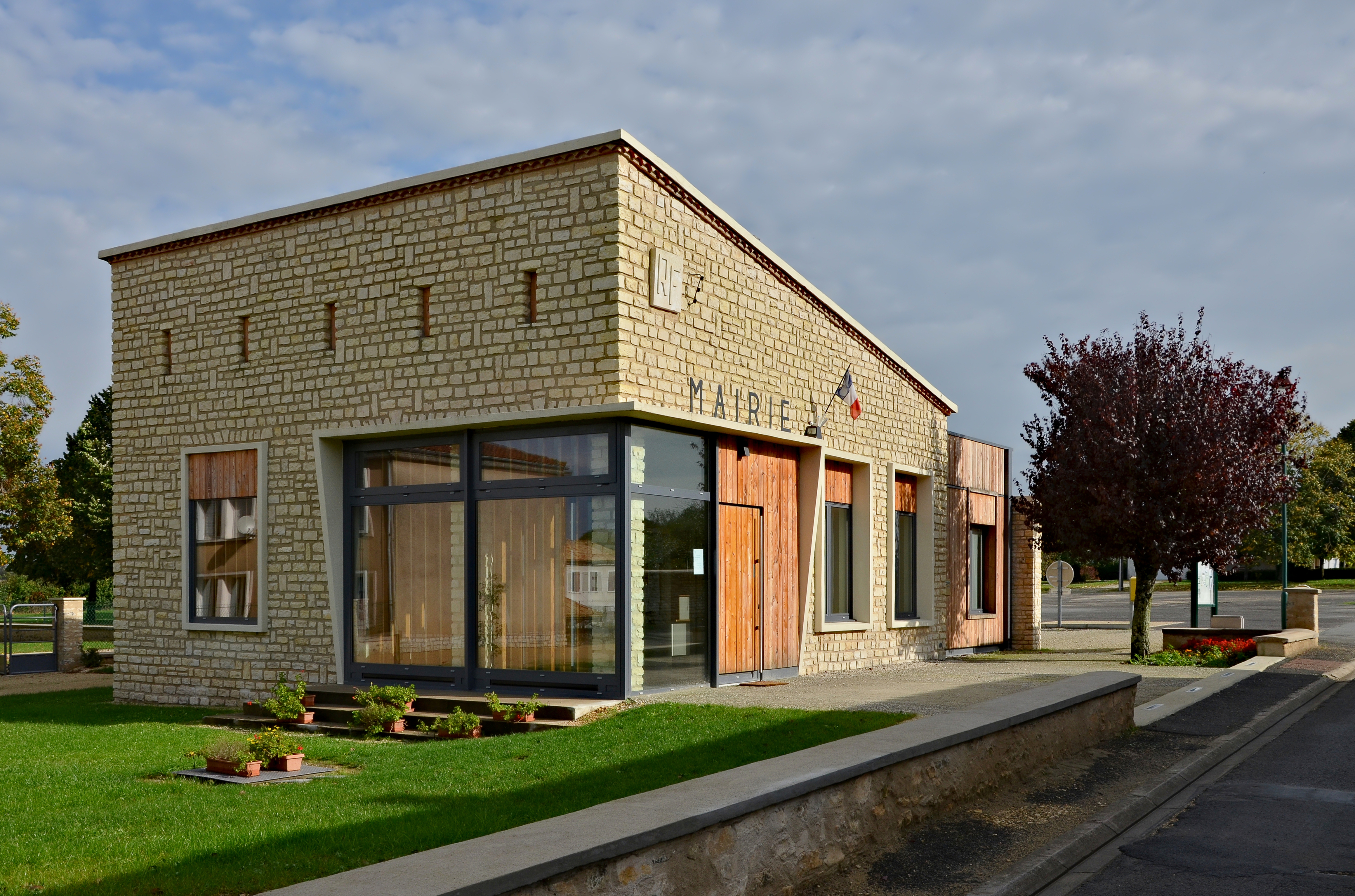 Town hall of Linazay, France.